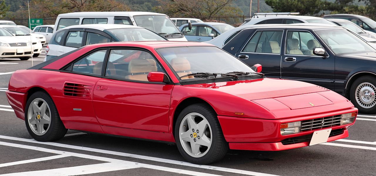 Ferrari Mondial t